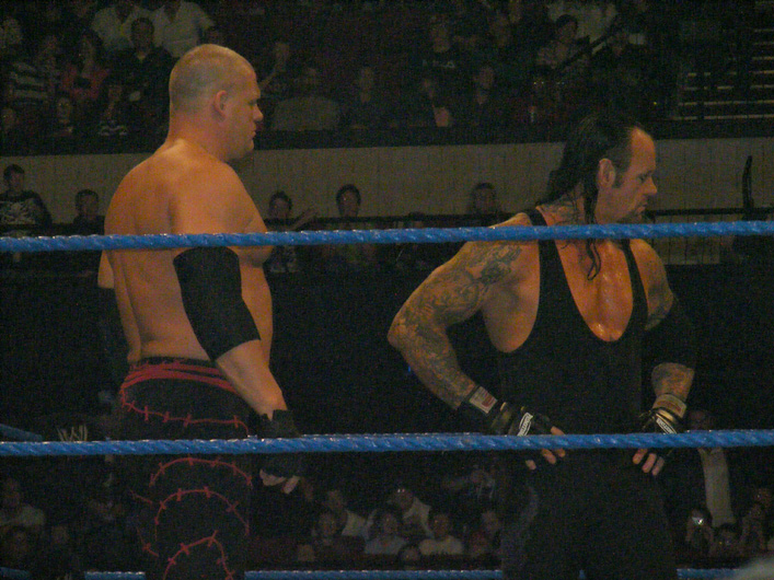 Kane & Undertaker @ Adelaide, South Australia 'Smackdown/ECW' house show on the 14th of June '08